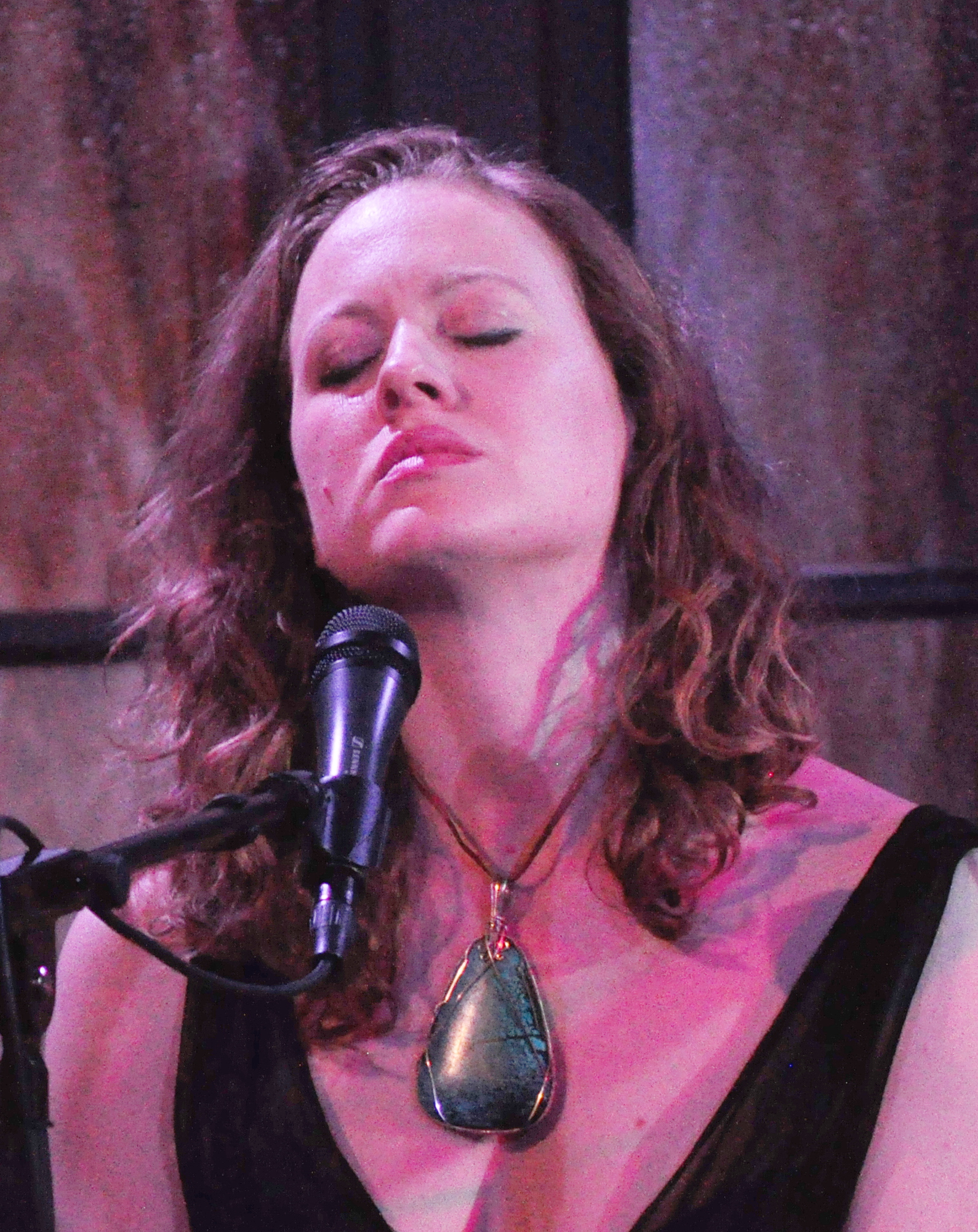 Shay Astar singing background vocals for Linda Perhacs (not shown) at the Fremont Abbey, Seattle, Washington, U.S., March 22, 2014.